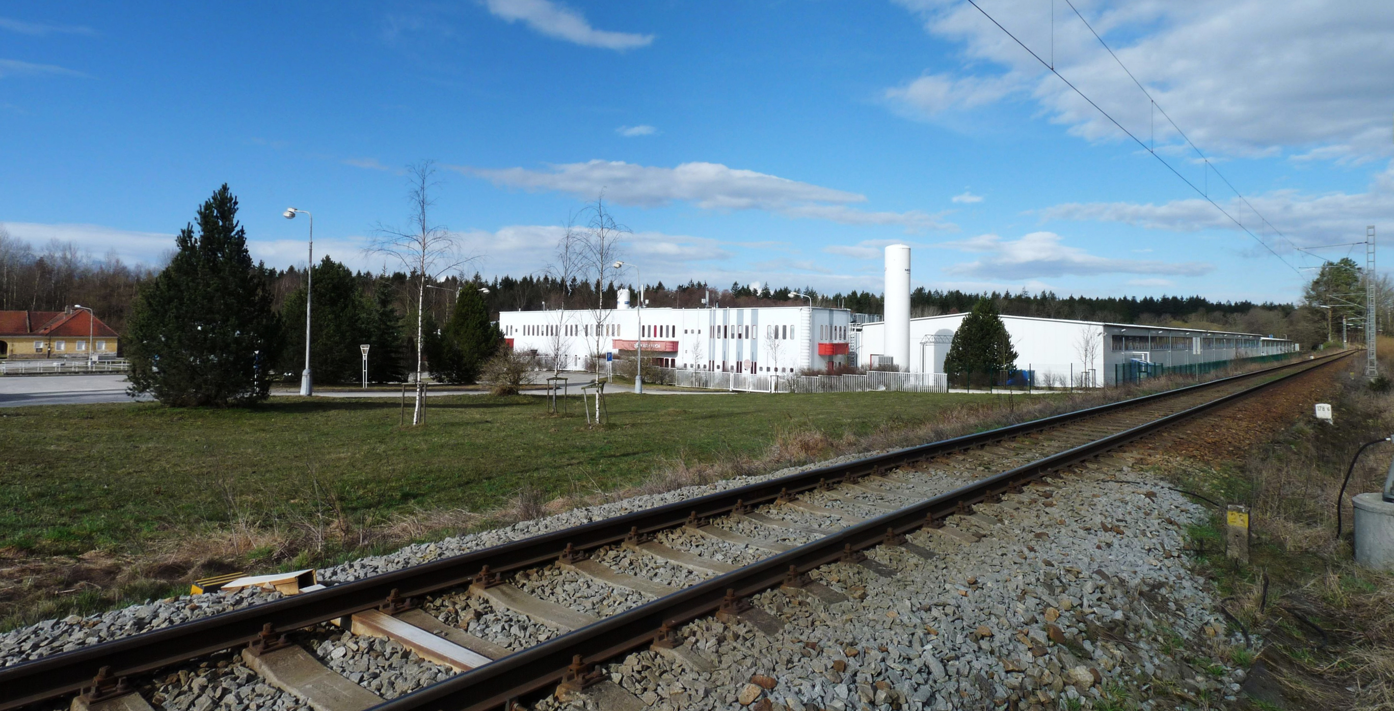 Building No 117 in the village of Byňov, České Budějovice District, South Bohemian Region, Czech Republic - factory of Dobrá voda company producing mineral water.